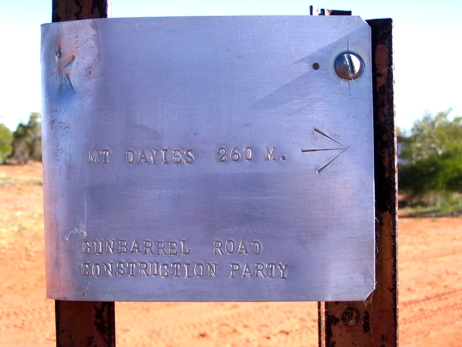 Mt. Davies signpost at Anne's Corner made by Len Beadell